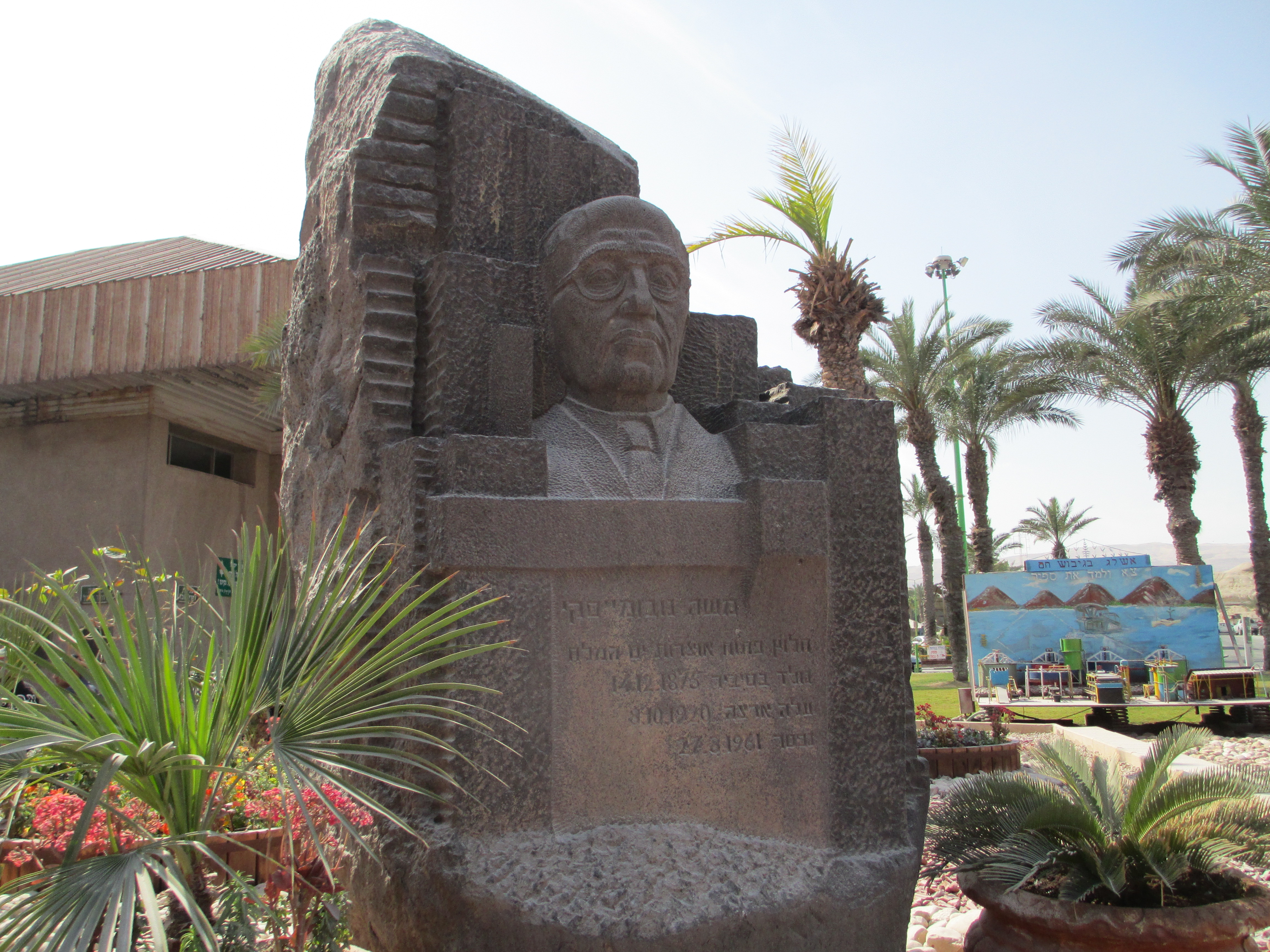 Moshe Novomeisky, founder of Dead Sea industry